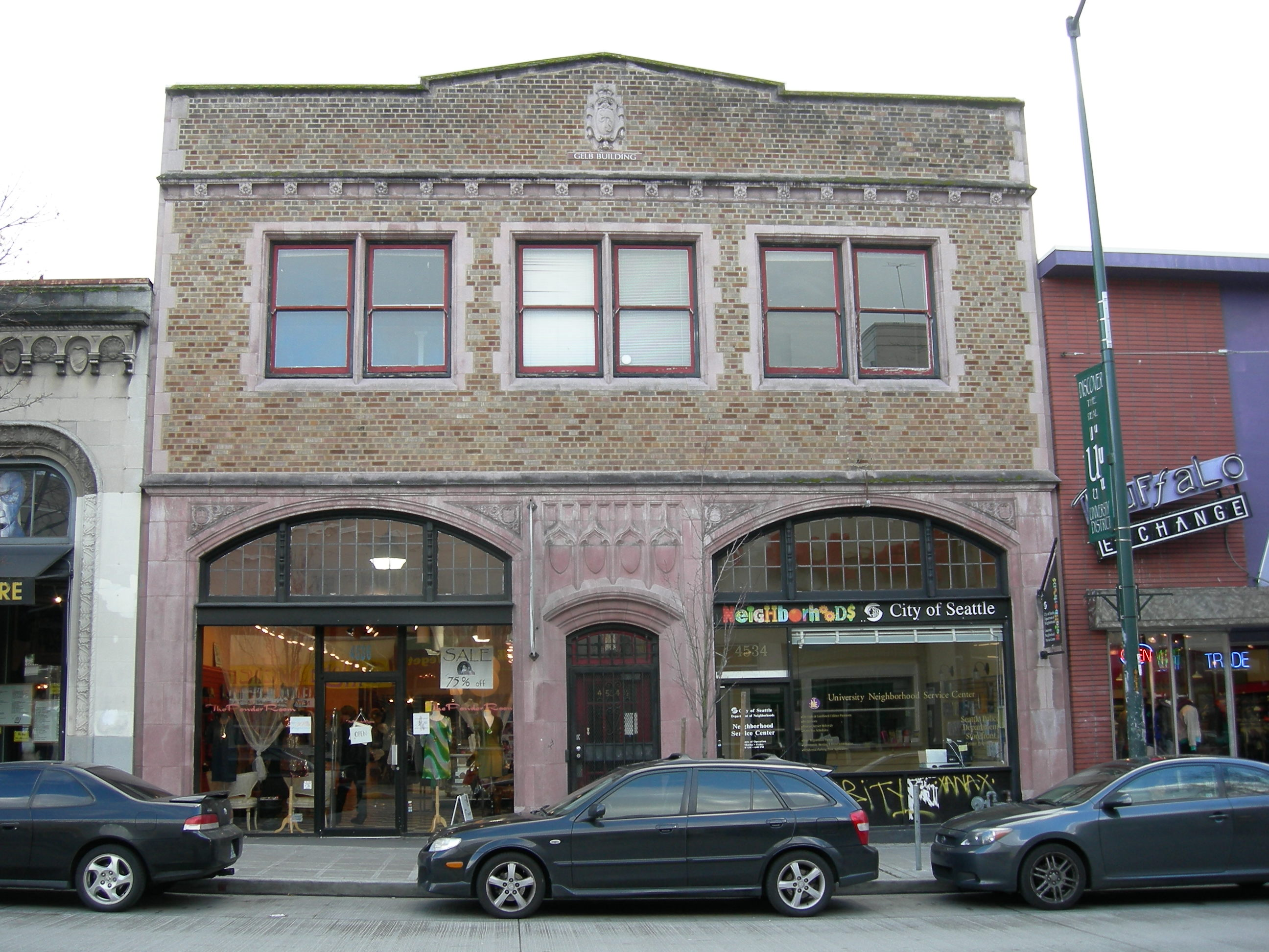 Gelb Building, 4534-4536 University Way NE, University District, Seattle, Washington, USA. For more about the building see Summary for 4534-4536 University WAY / Parcel ID 8816400170 / Inv # UD009, Seattle Department of Neighborhoods. The storefront at right is a Neighborhood Service Center; these are also sometimes called "little city halls".